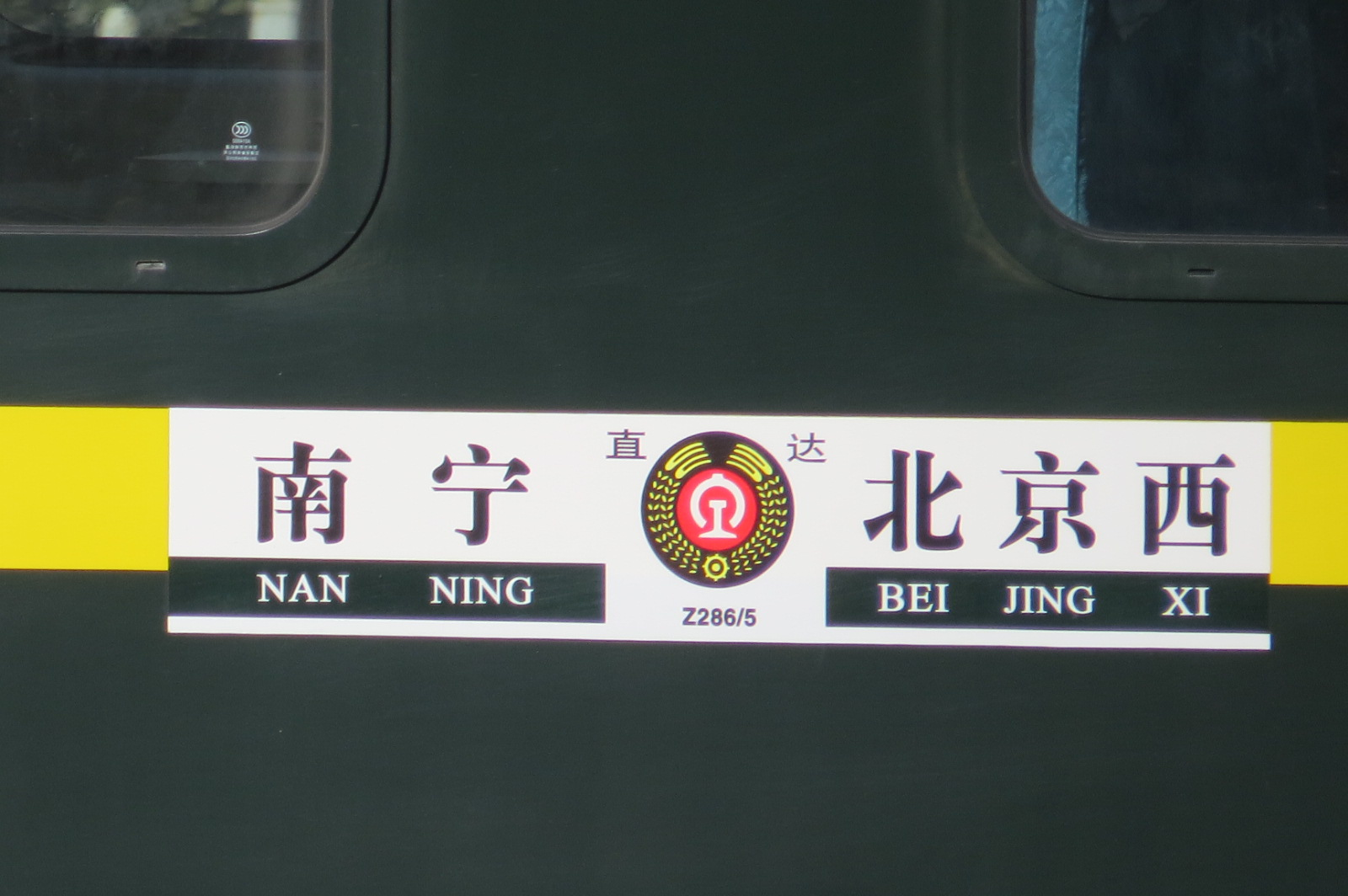 Heil Shengtler! He painted this train green to a yucky extent.